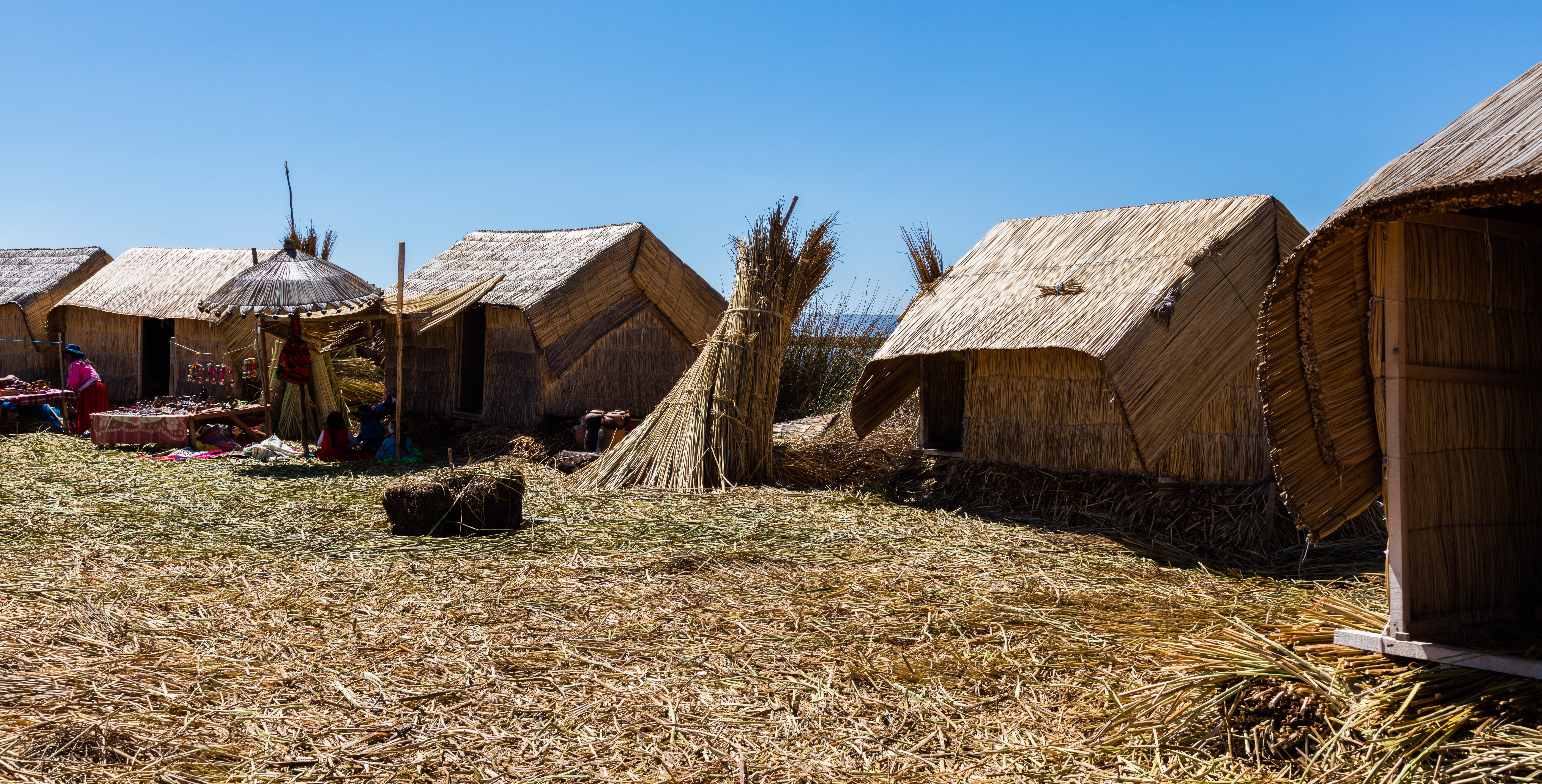 Uros floating islands, Titicaca Lake, Peru